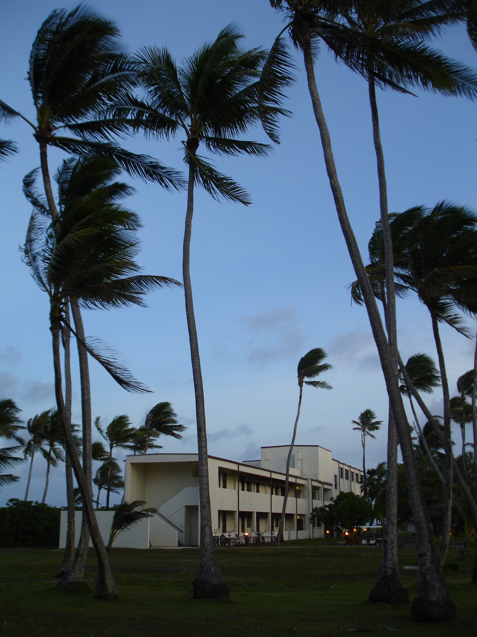 View of the "Kwaj Lodge" in 2007. The Kwaj Lodge provides accommodations for "temporary duty" personnel on Kwajalein, and others seeking short-term lodging on the Atoll.